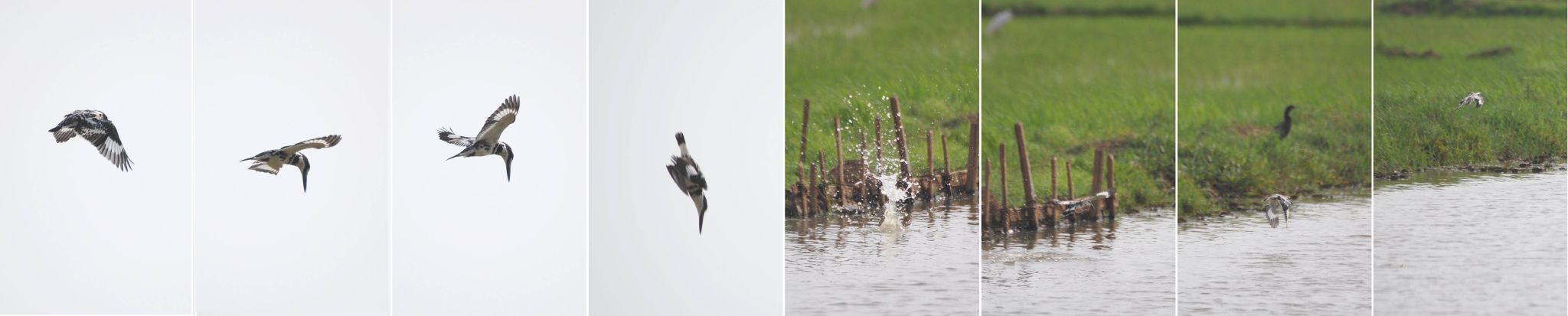 pied king fisher series